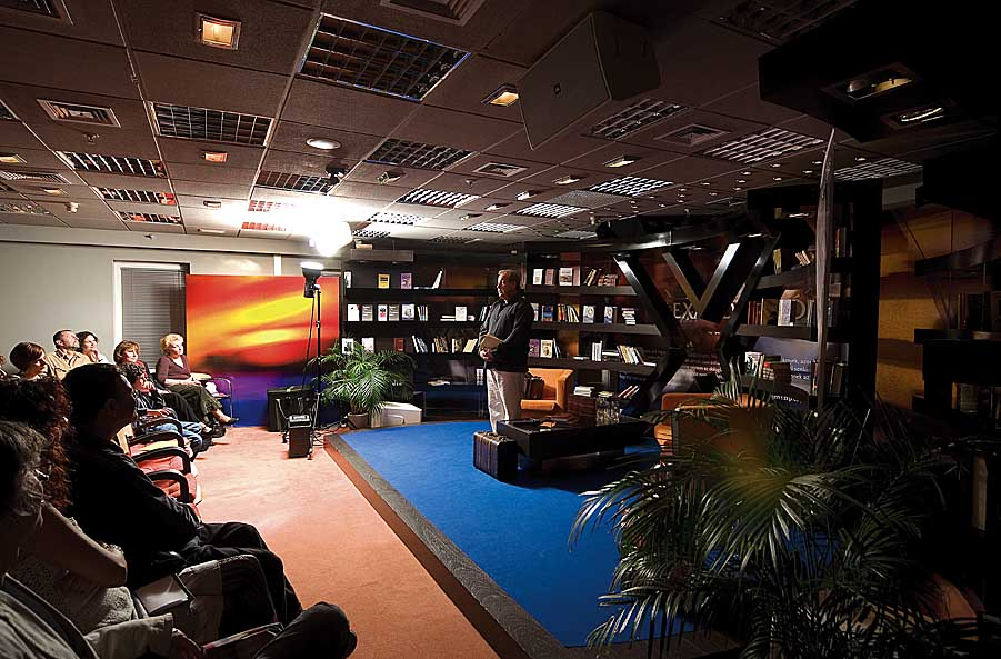 Travels in Erotica book presentation. Photo by Andras Hasz. Alexandra Podium.